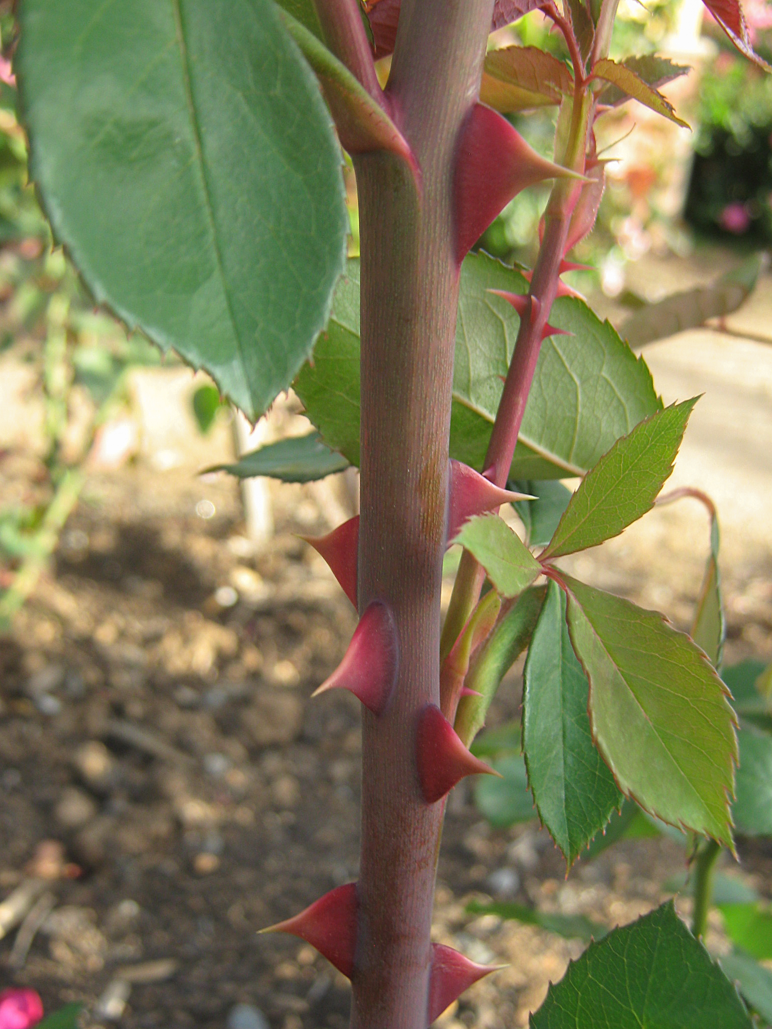 Rose 'Lady Edgeworth David', 1939 by Olive Fitzhardinge; thorns and leaves photographed in the Nieuwesteeg Heritage Rose Garden, Bacchus Marsh, Victoria